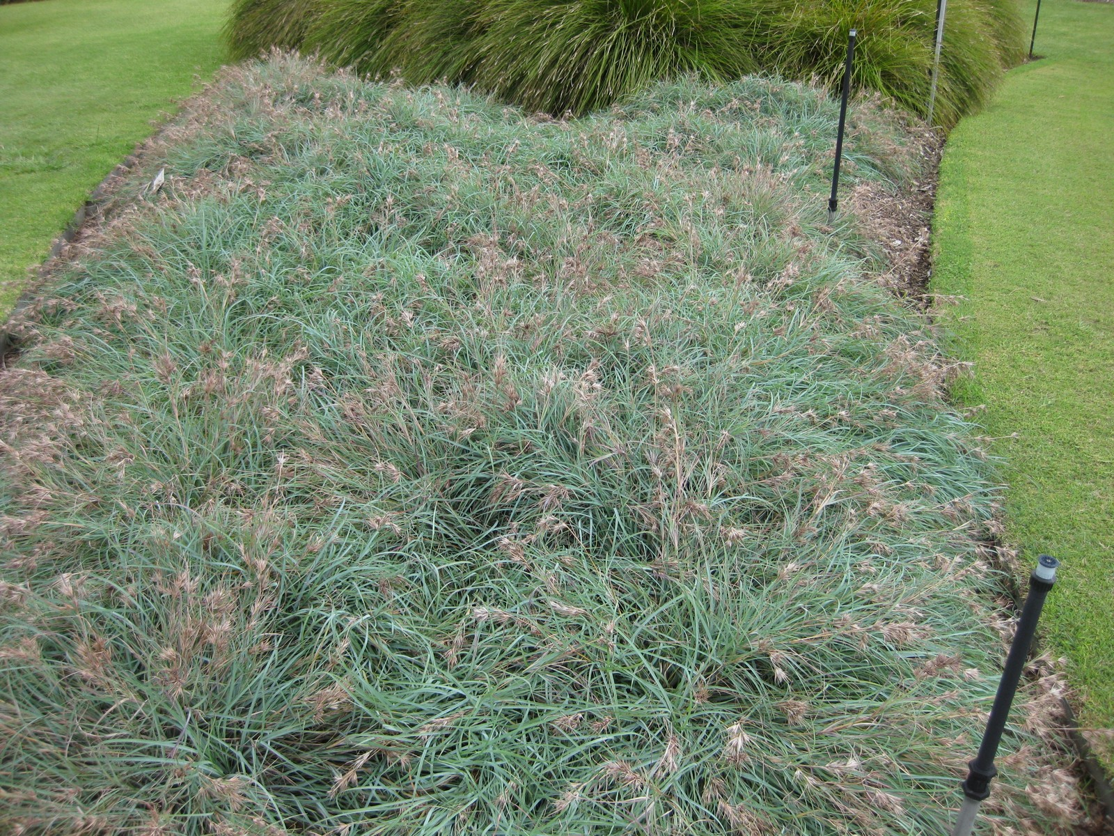 Photographed at the Royal Botanic Gardens Sydney (Australia) in January